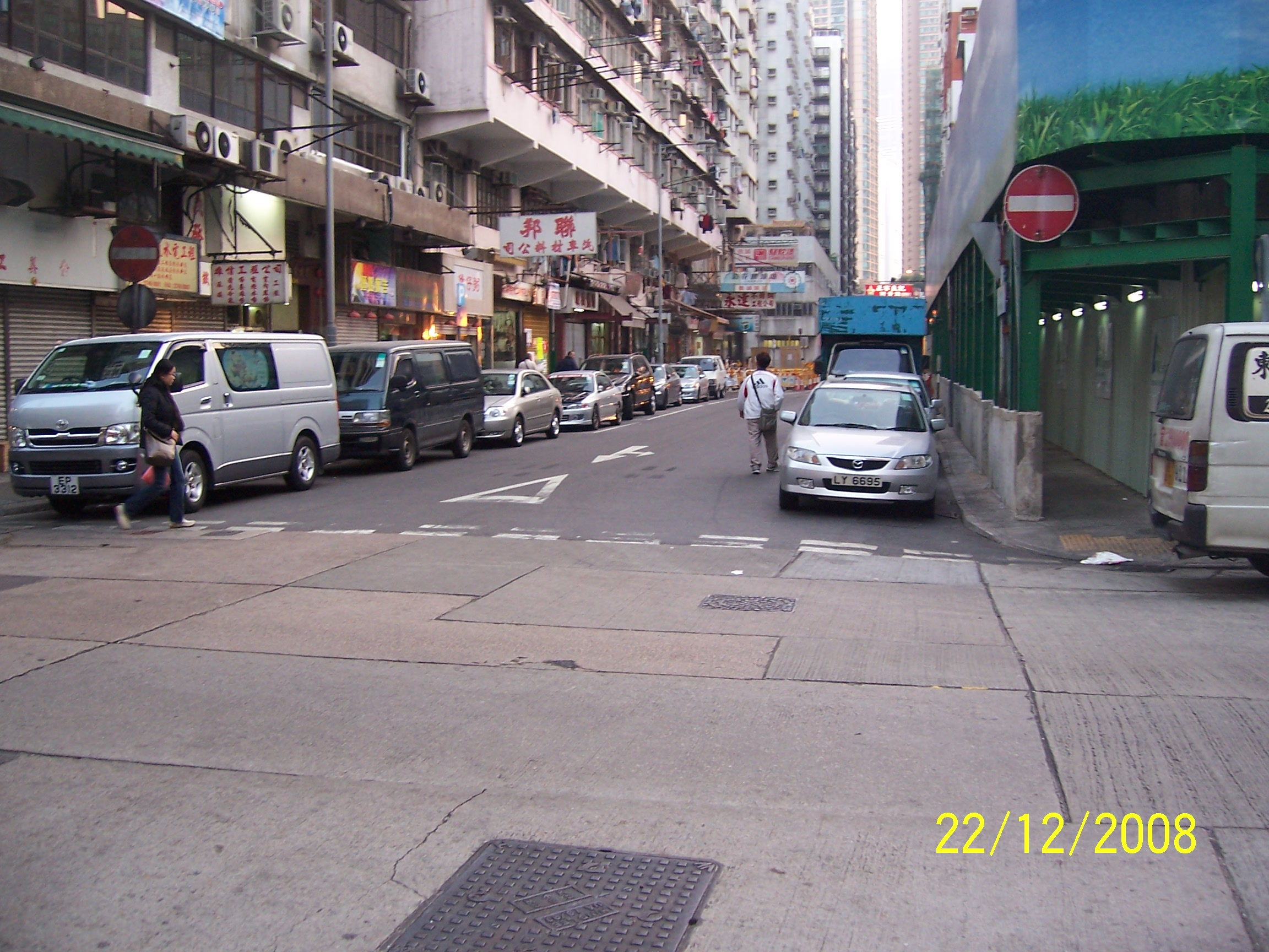 View of Pine Street